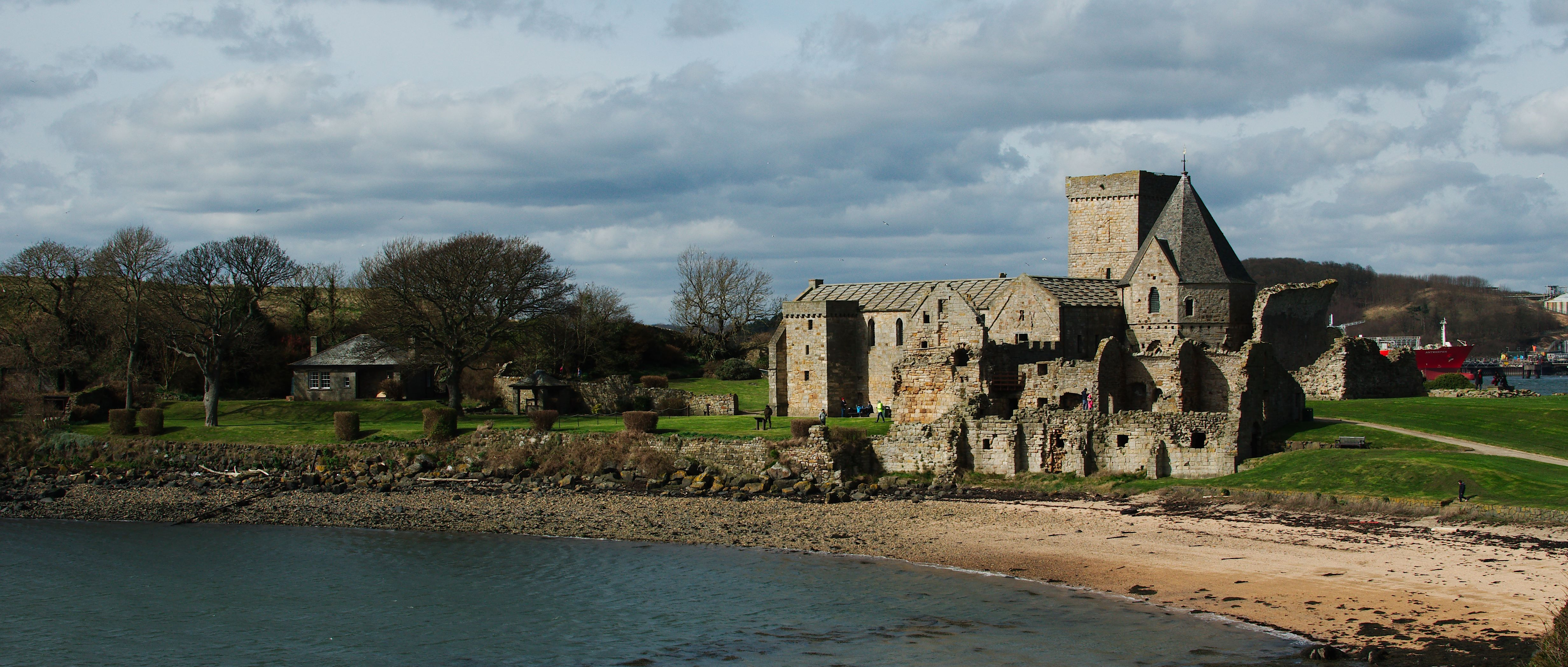 2016 - Trip to Inchcolm